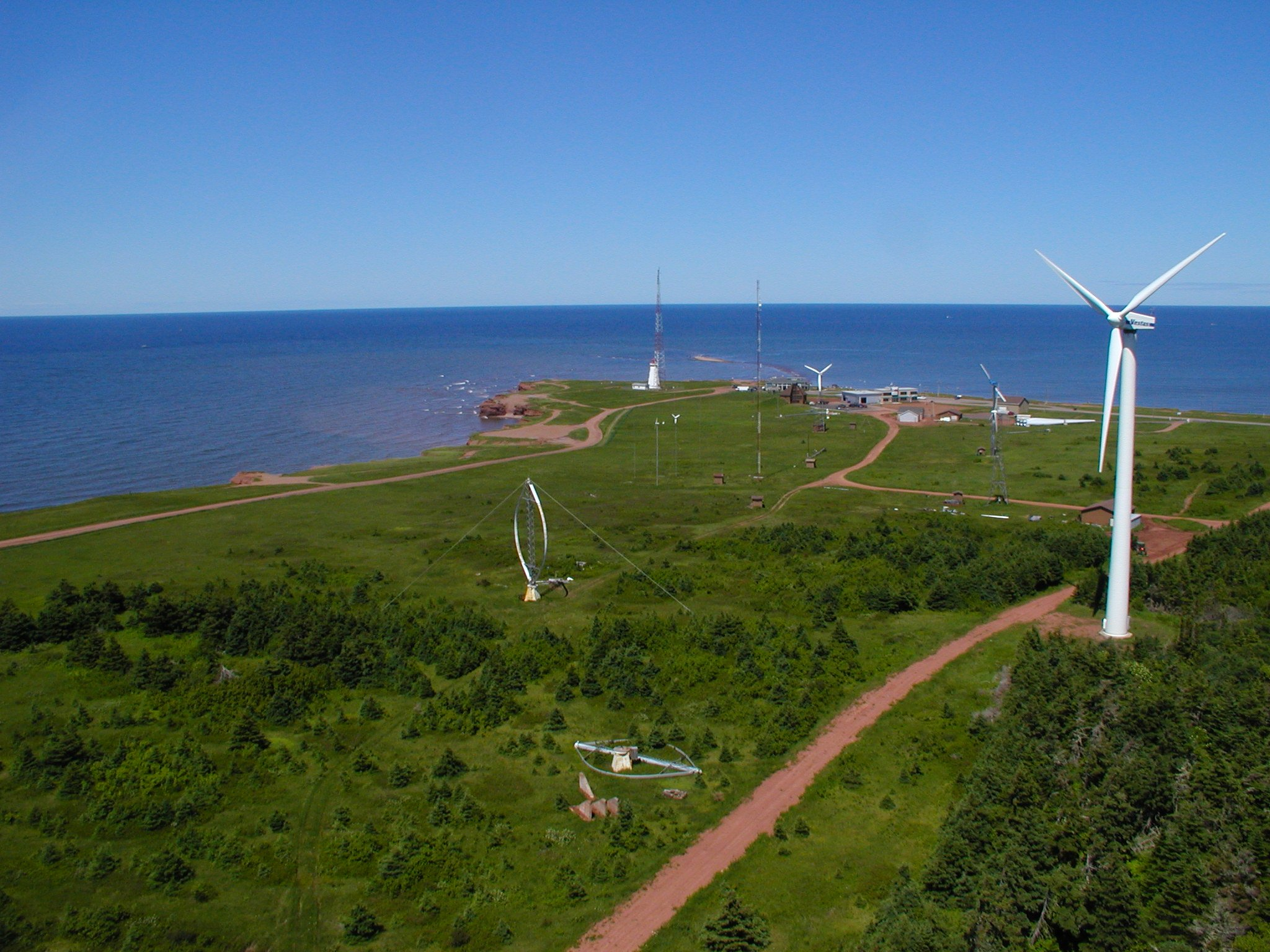 Photo of Vestas V47 wind turbine taken at the Wind Energy Institute of Canada, Prince Edward Island